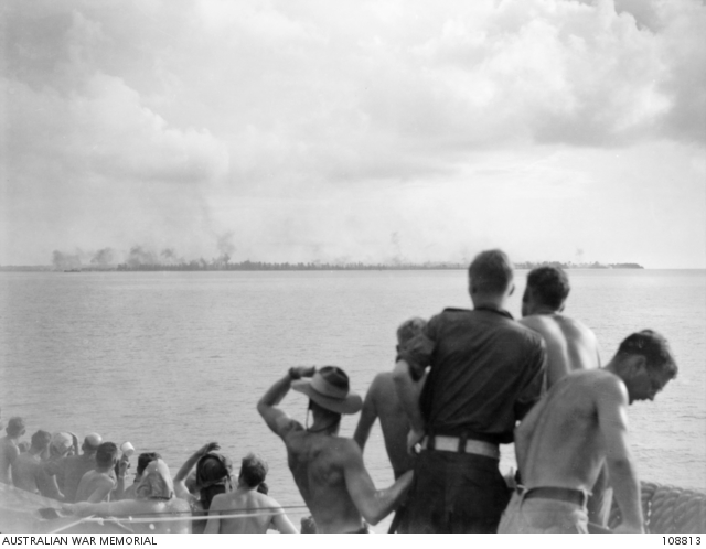 LABUAN, NORTH BORNEO, VICTORIA TOWN AND BROWN BEACH UNDER HEAVY ALLIED ATTACK PRIOR TO THE LANDING BY MEMBERS OF 24TH INFANTRY BRIGADE FOR THE OBOE 6 OPERATION.